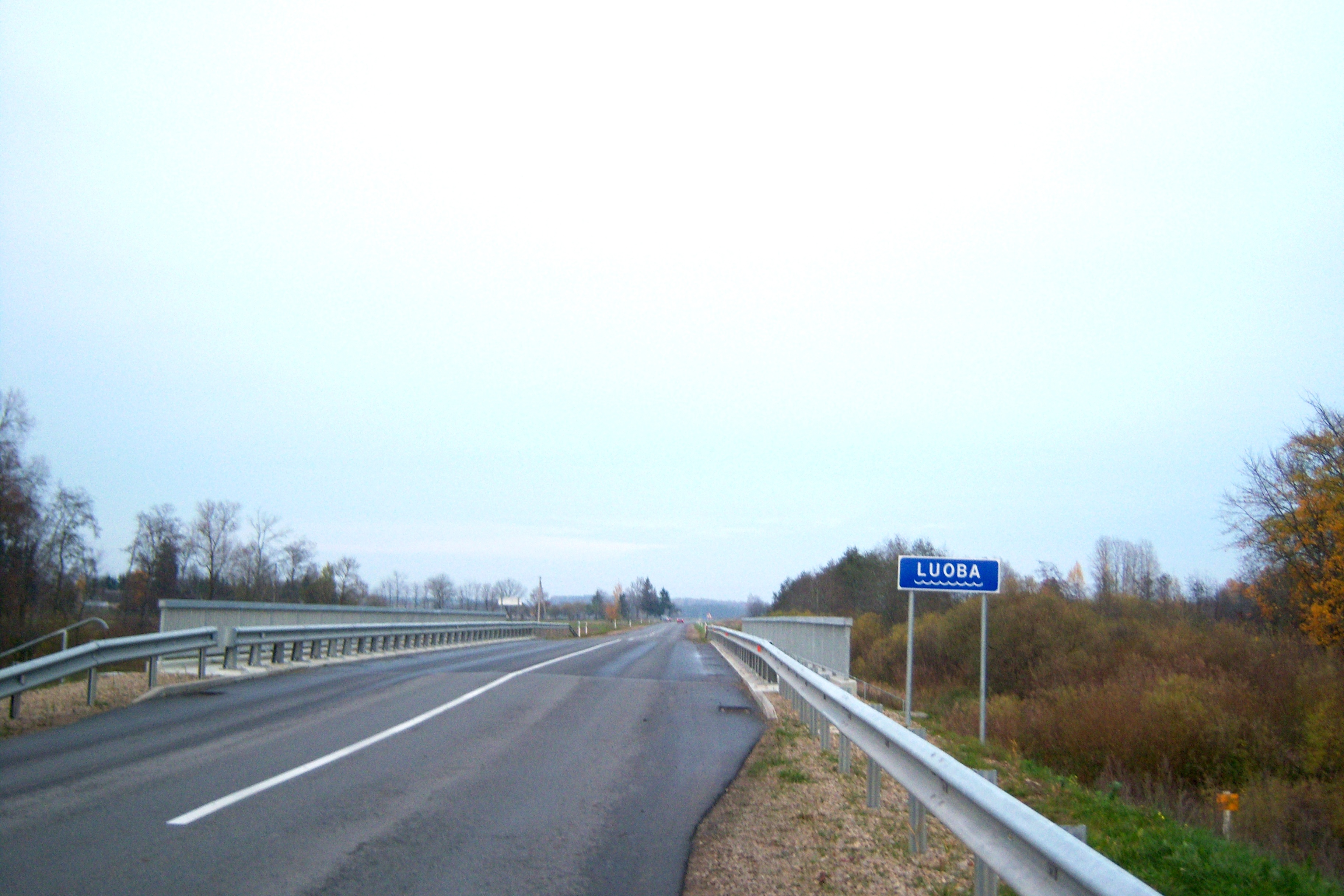 Road KK170 crossing Luoba River near Skuodas, Lithuania